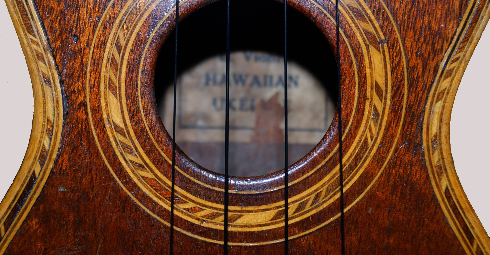 view of the soundhole and label of a Ukulele made by Louis Viohl & Sons in Flushing, Queens, New York sometime in the 1920's. Albert Louis Viohl emigrated to U.S. in the 1860's and started the Empire workshop in 1883 where he made various stringed musical instruments including Guitars and Mandolins. Both of his sons joined the family business and in 1902 Louis Jnr took over running it, (August was the other son) and added Ukuleles to the catalogue in the late teens / early twenties